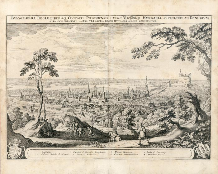 Bratislava (Posonium) in the 17th century 1638